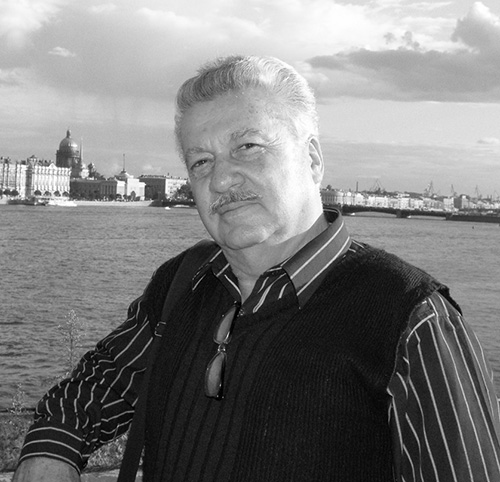 Bocha Adjindjal